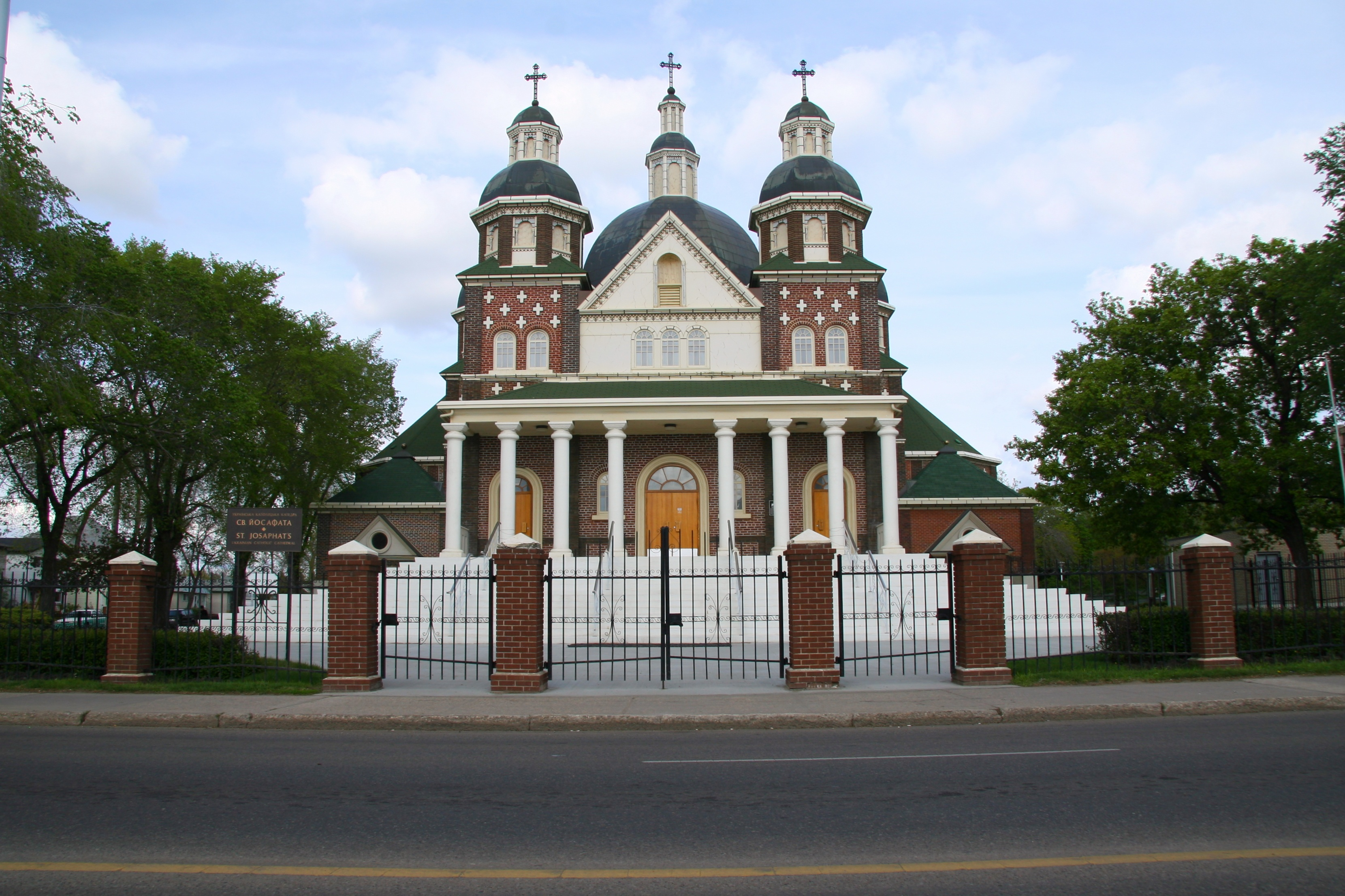 Saint Josaphat Ukrainian Catholic Cathedral (Edmonton - Canada)